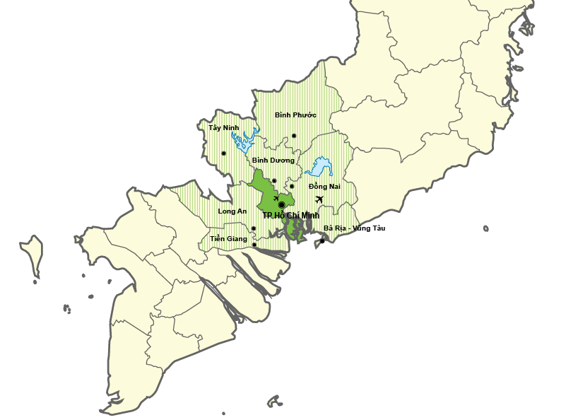 Map of Ho Chi Minh City Metropolitan Area consists of 7 provinces and Ho Chi Minh City according to Decision No. 589 / QĐ-TTG dated 20/05/2008 on "Planning for Construction of Ho Chi Minh City Metropolitan Area to 2020 and vision to 2050" by the Prime Minister of Vietnam.